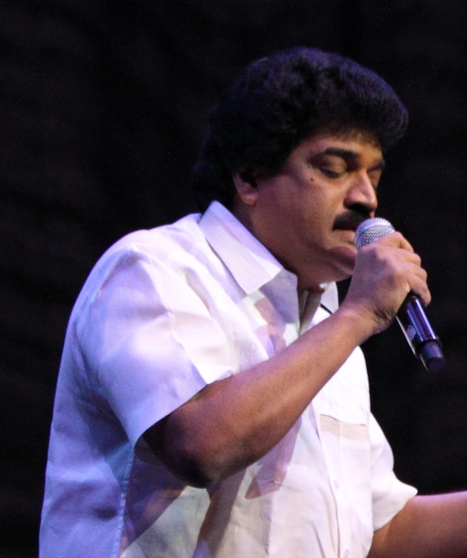 MG Sreekumar (Cropped)